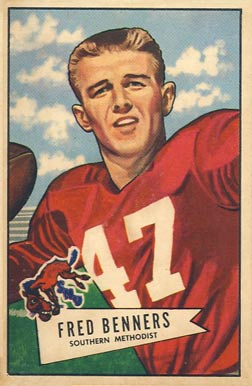 American football player Fred Benners on a 1952 Bowman Large card.